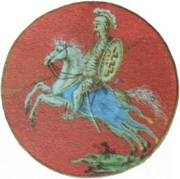 Coat of Arms of Lipniški (1792)